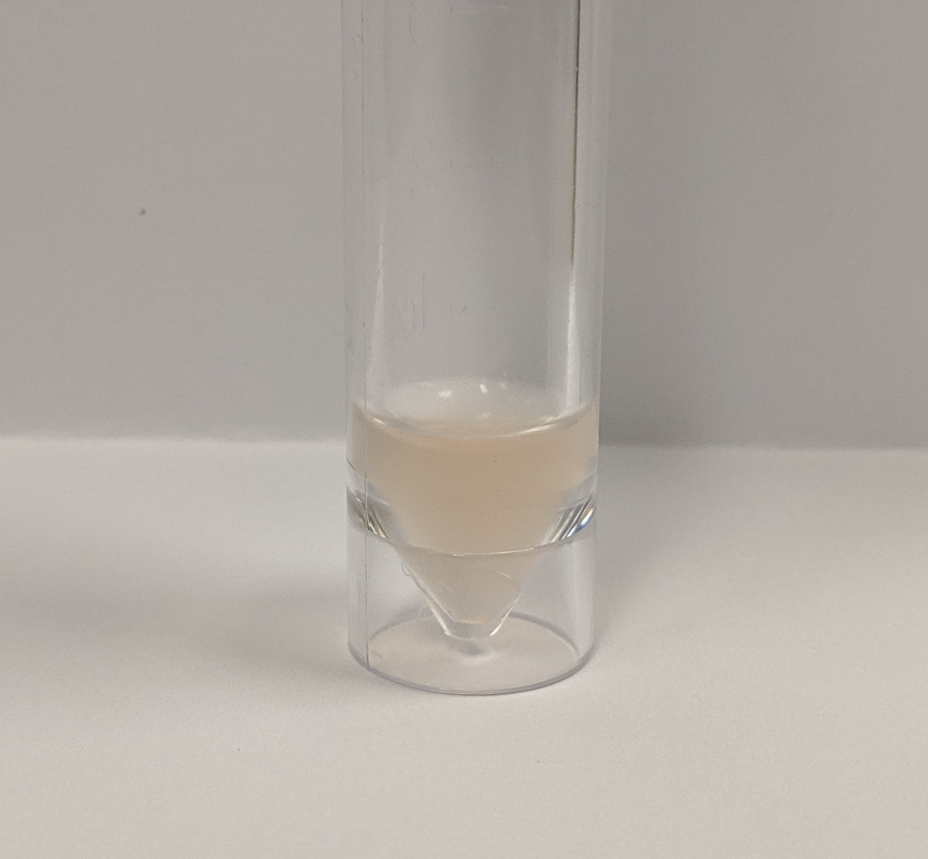 CSF from a person with meningitis due to Streptococcus. WBCs were greater than 3,000 10 to the 6 per L, glucose was less than 2 mmol/L, and protein was greater than 11 g/L